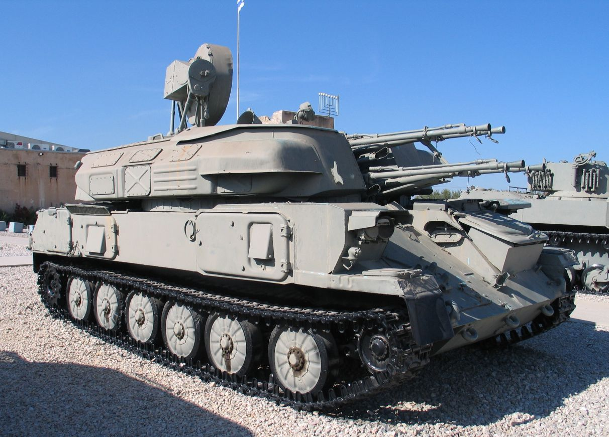 Description: Soviet ZSU-23-4 self propelled air defence cannon in Yad la-Shiryon Museum, Israel. 2005. Source: Photo by me, User:Bukvoed.